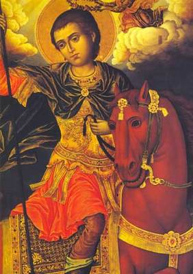 Icon of Sain Demetrius by Dimitar Molerov in Saint Demetrius Church in Teshovo. Detail